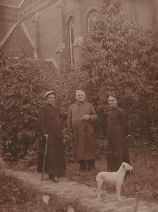 Rev. Jan Czyrek, Kamionka Strumilowa, 1930